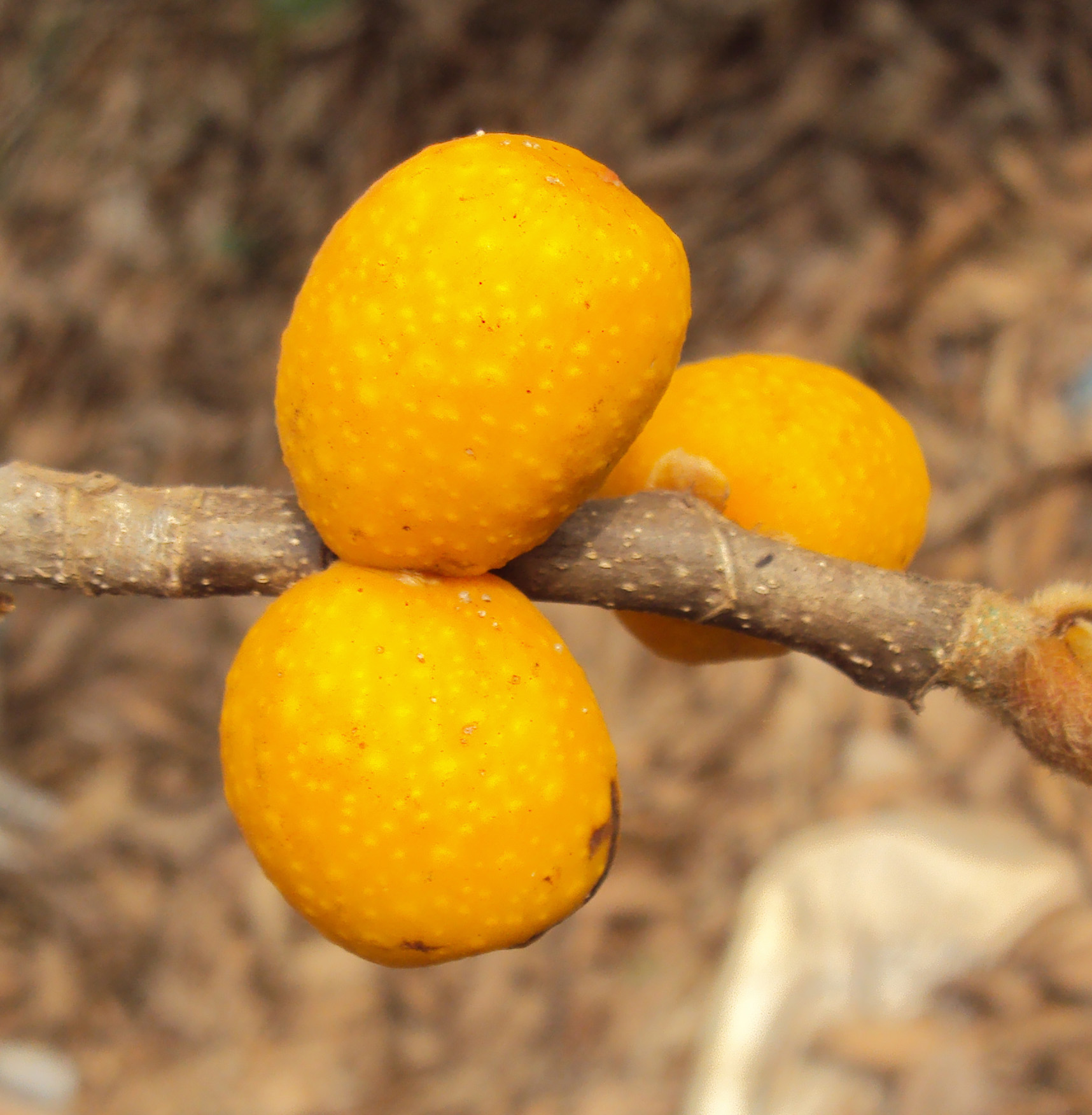 Ficus drupacea